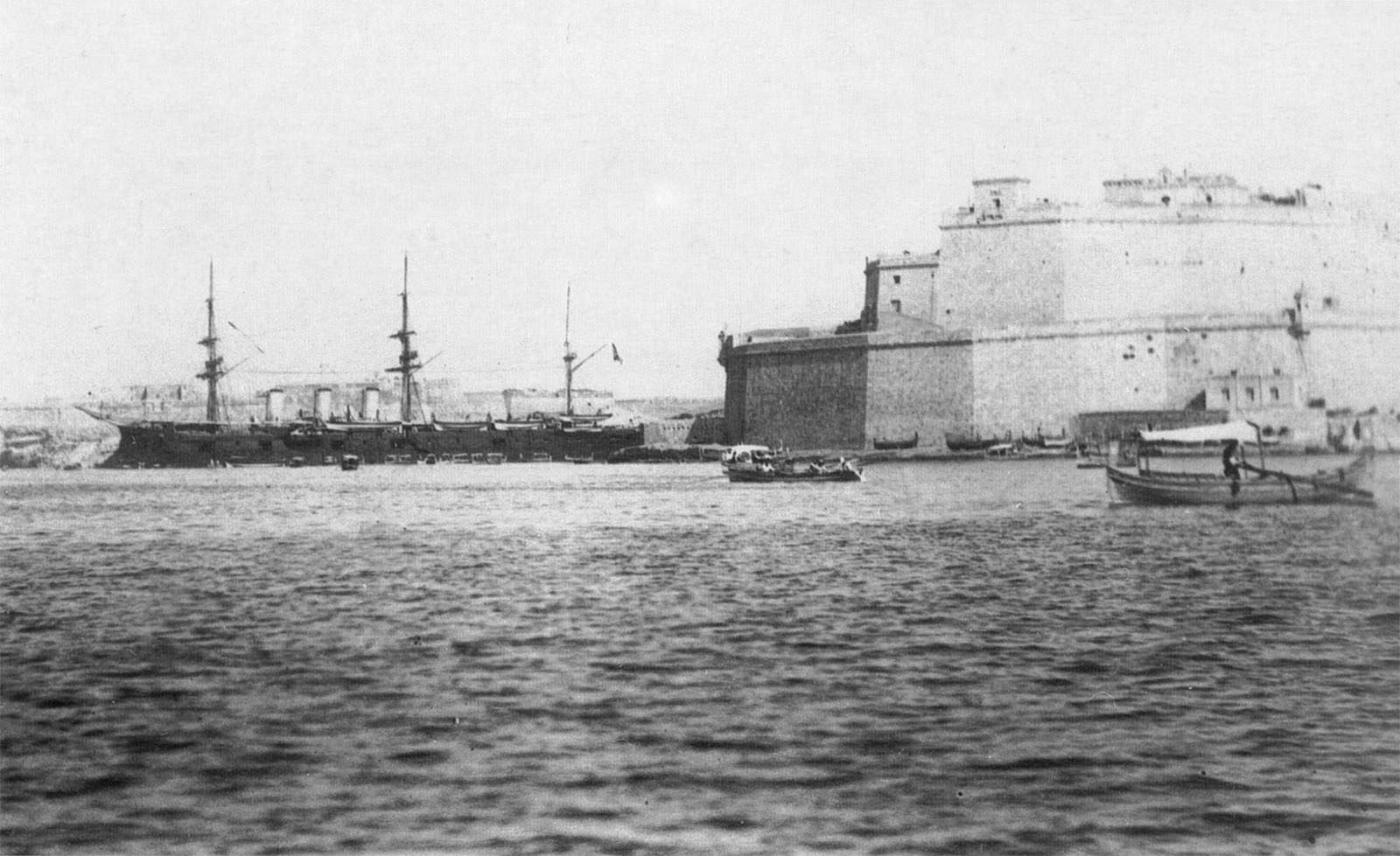 Imperial Russian cruiser Pamyat' Azova at the Grand Harbour, Malta.